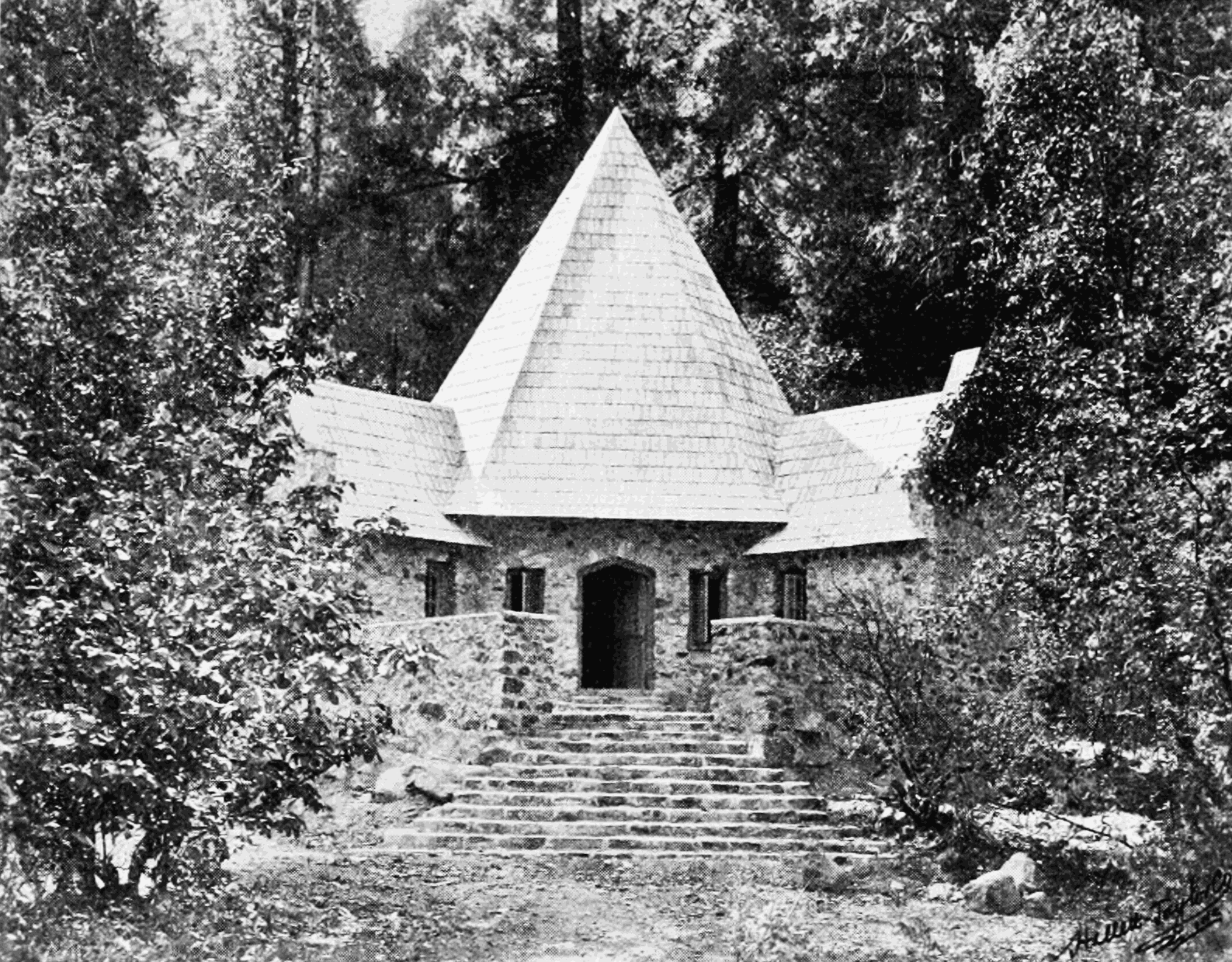 The Le Conte Memorial Lodge — in Yosemite Valley. In 1904, shortly after completion by the Sierra Club.